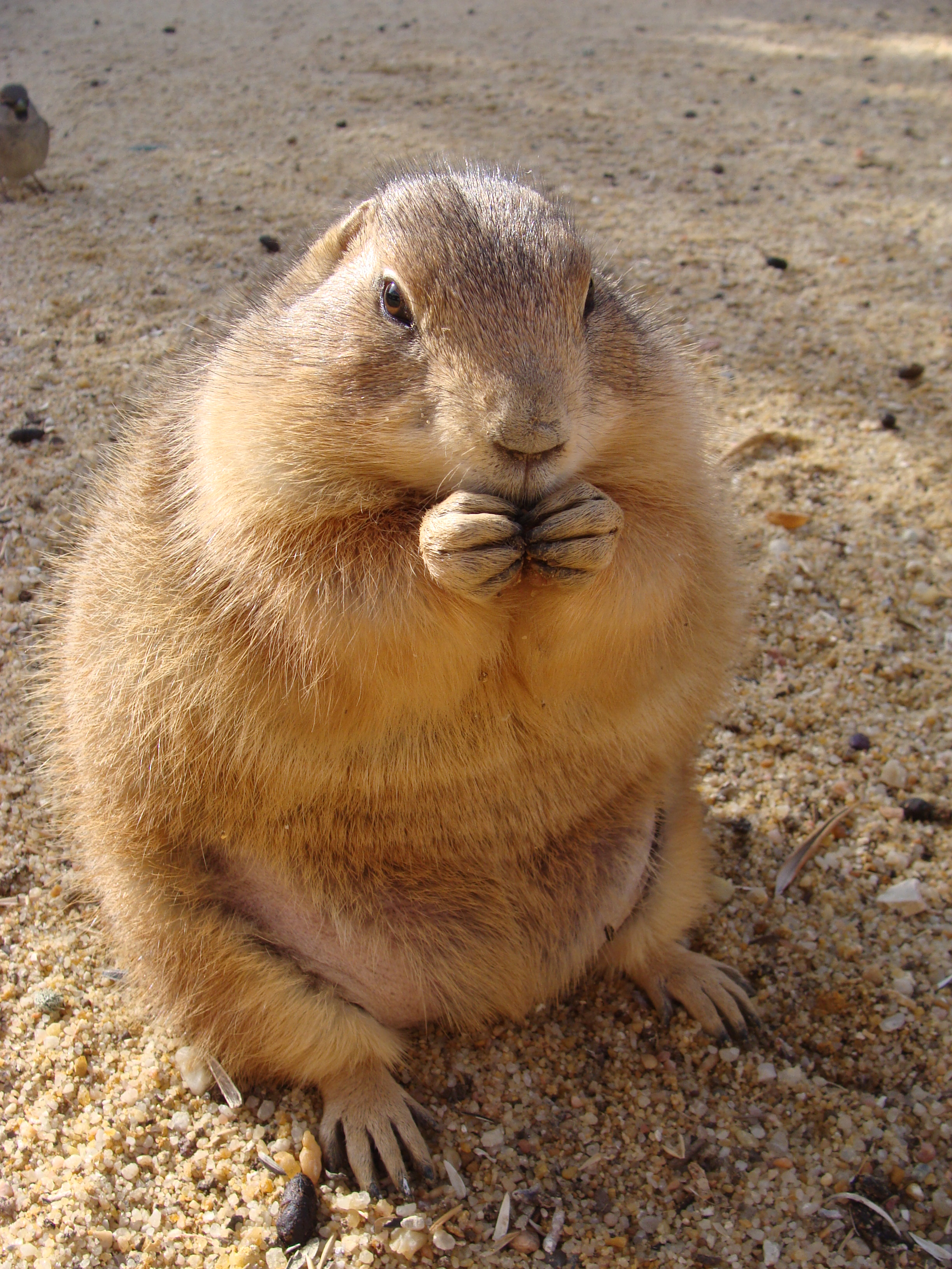 Cynomys ludovicianus (Black-tailed Prairie Dog) in the Park of Faunia, Madrid, Spain.